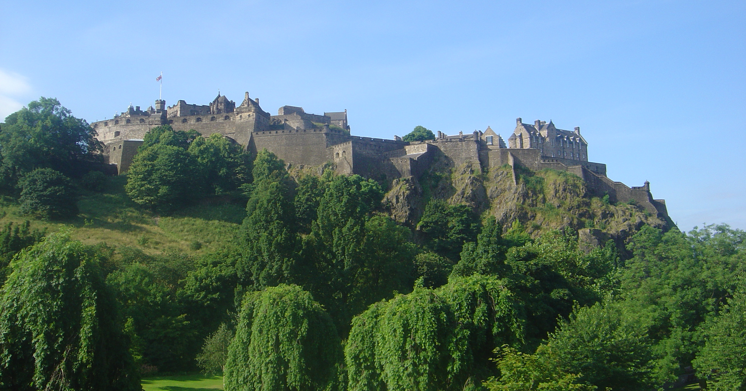 Edinburgh Castle seen from Princes Street